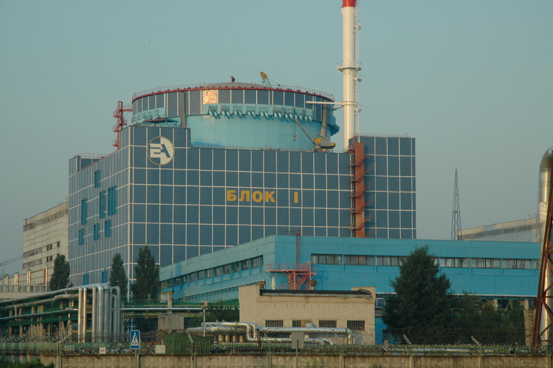 Unit No. 1 of Khmelnytskyi Nuclear Power Plant in Netishyn (Khmelnytska oblast, Ukraine)